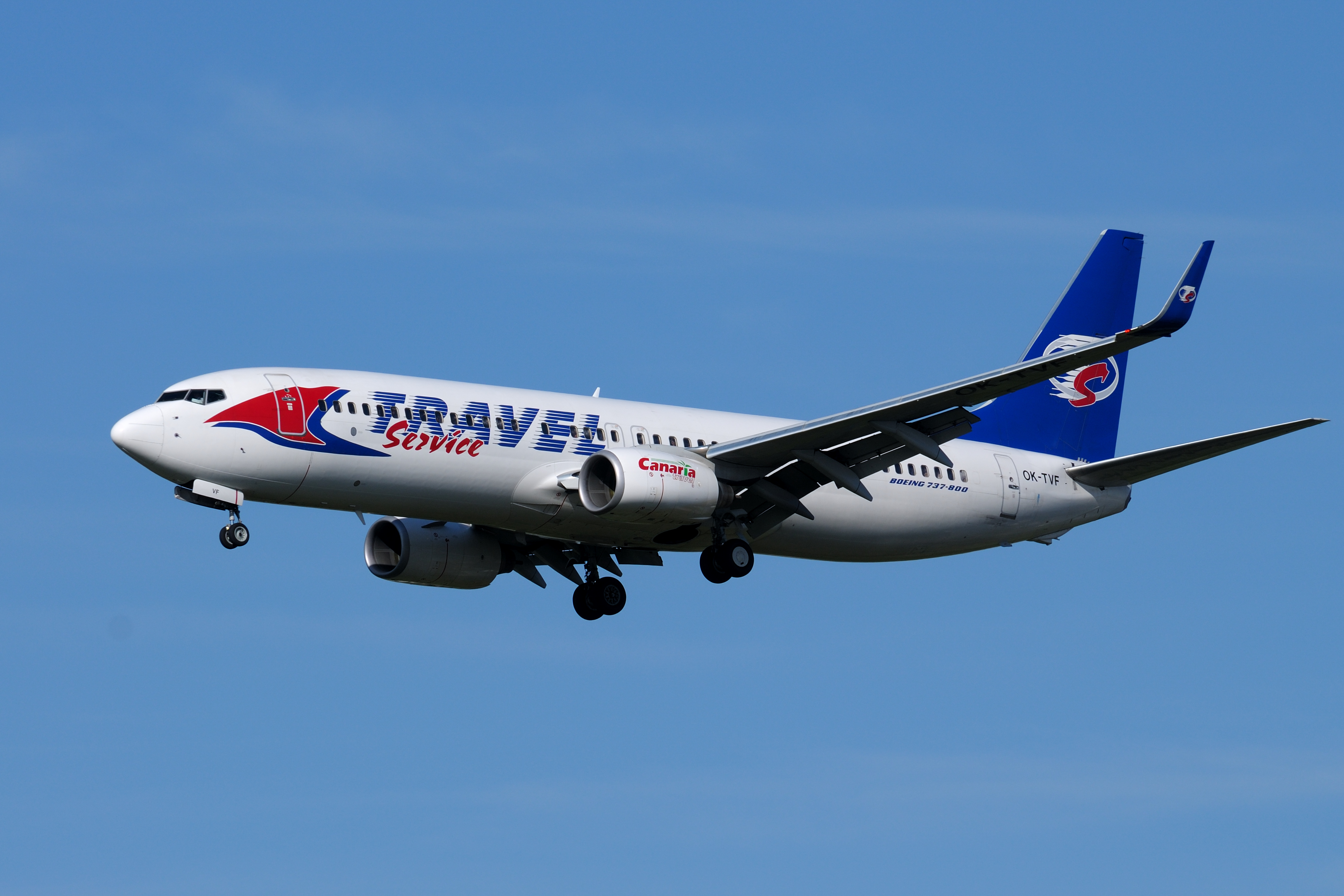 Boeing 737-8FH OK-TVF Travel Service